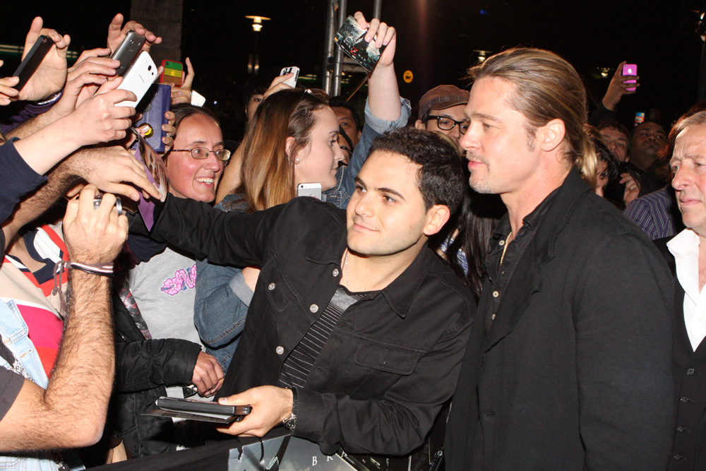 Brad Pitt arrives on Sydney's red carpet for World War Z premiere